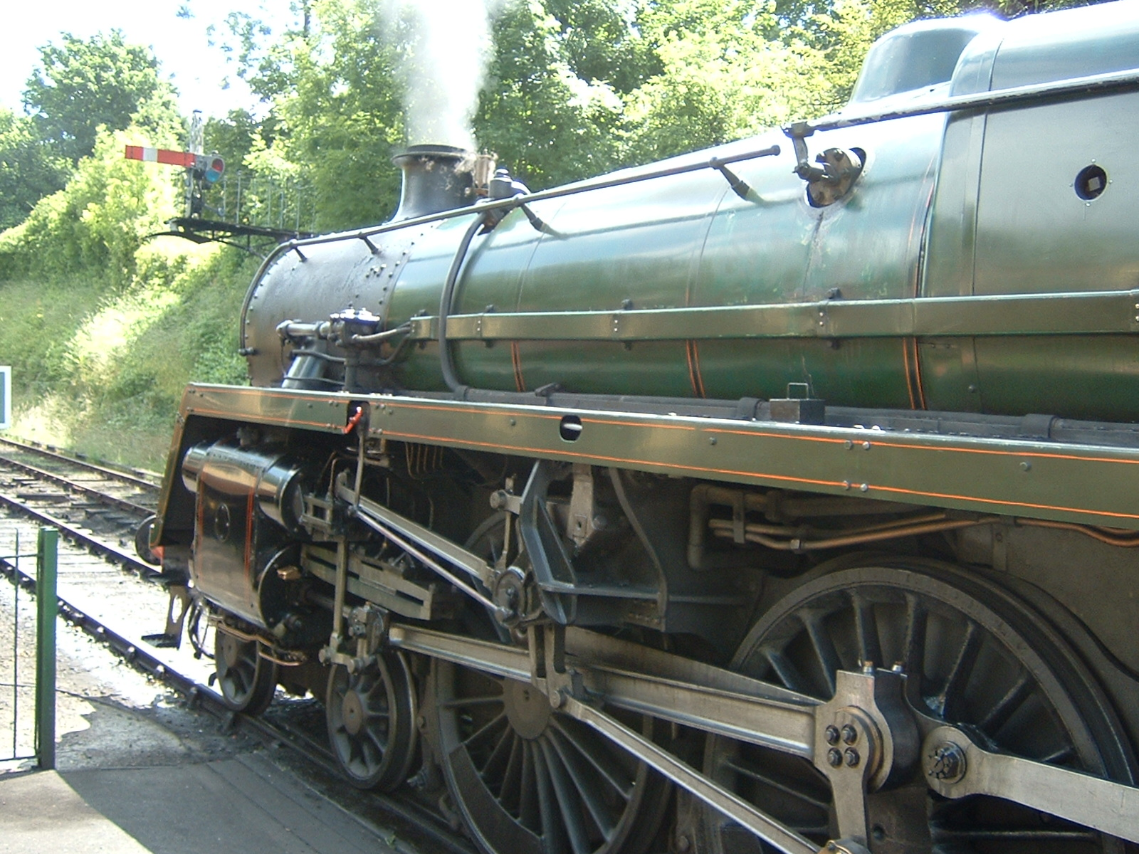 Steam locomotive 73096 at Arlesford Station